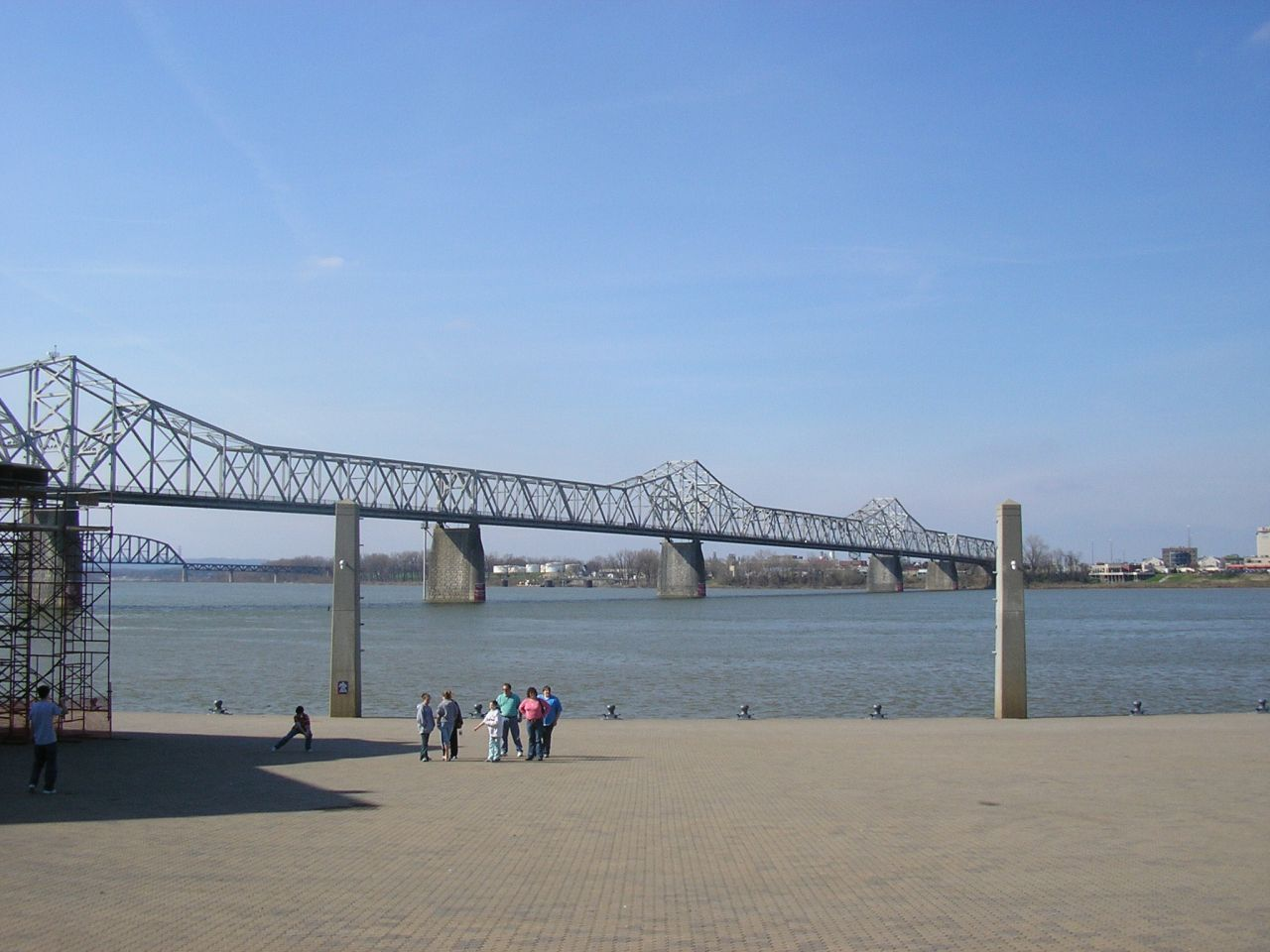 George Rogers Clark Memorial Bridge over the Ohio River near Louisville, Kentucky.